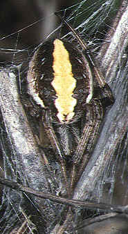 female Neoscona theisi from Okinawa.